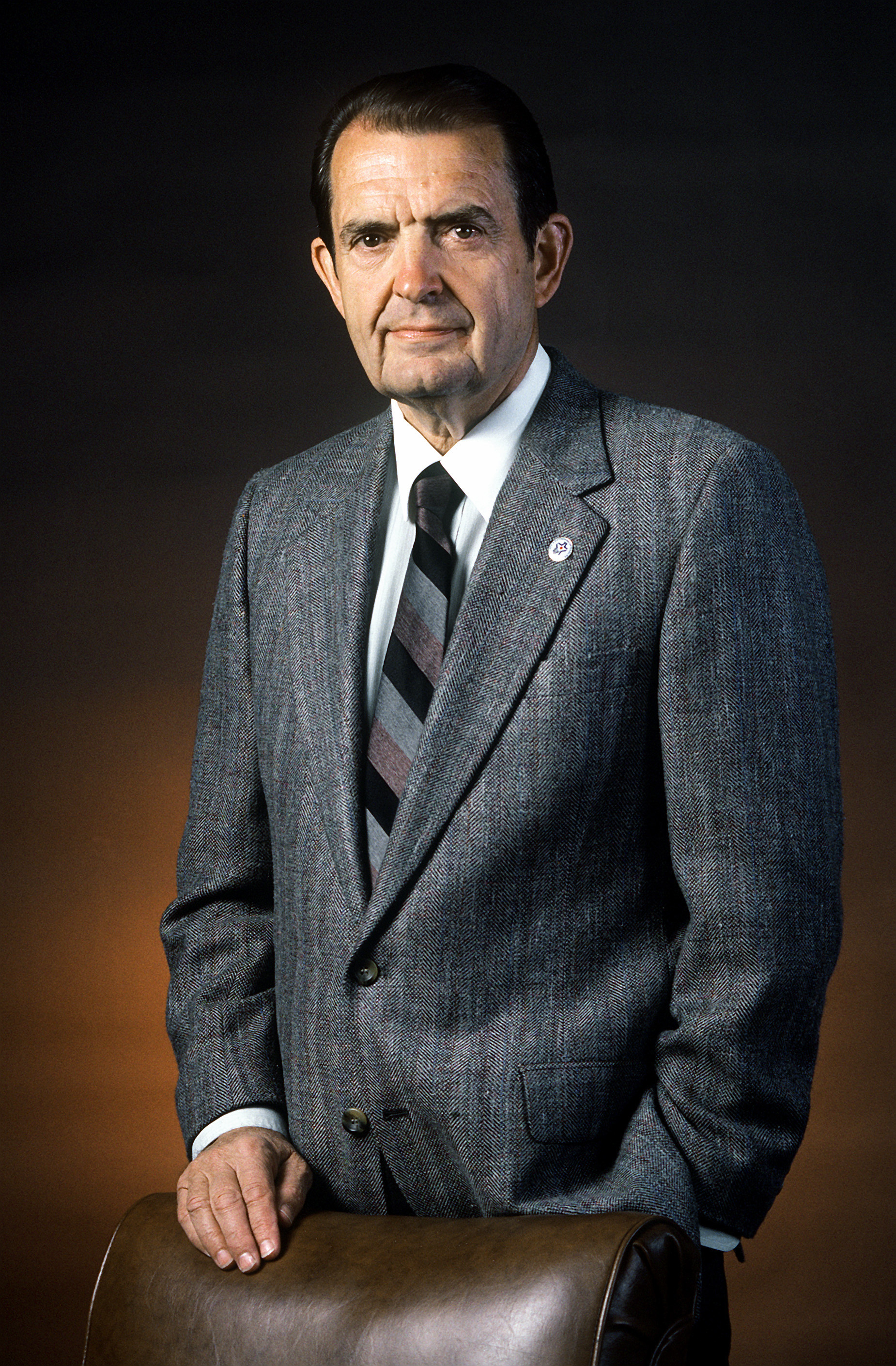 David Charles Jones